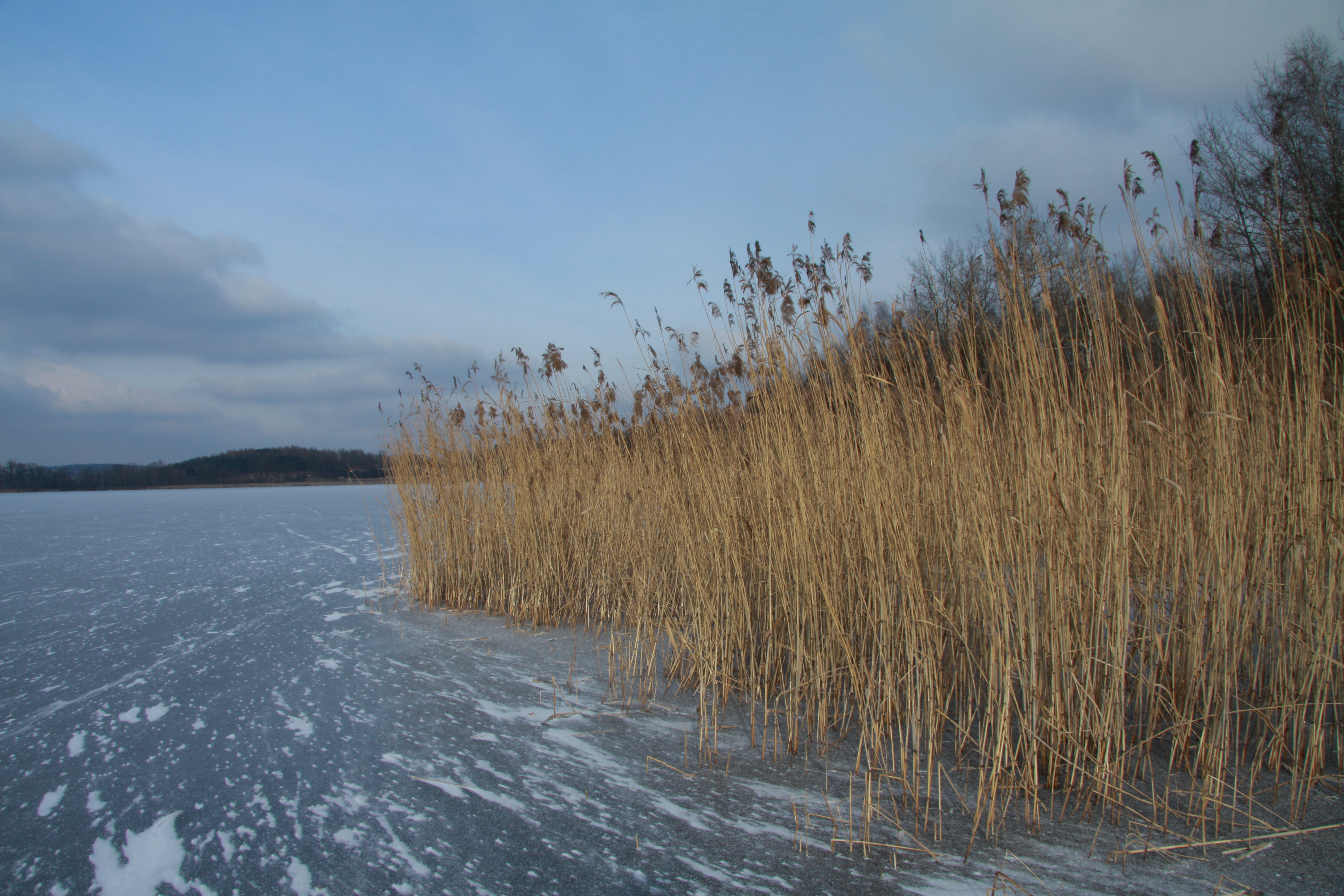 Řežabinec pond in winter in national nature reserve Řežabinec a Řežabinecké tůně in Písek District, Czech Republic